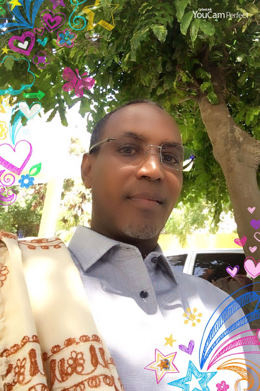 Somali bussinesman and politician